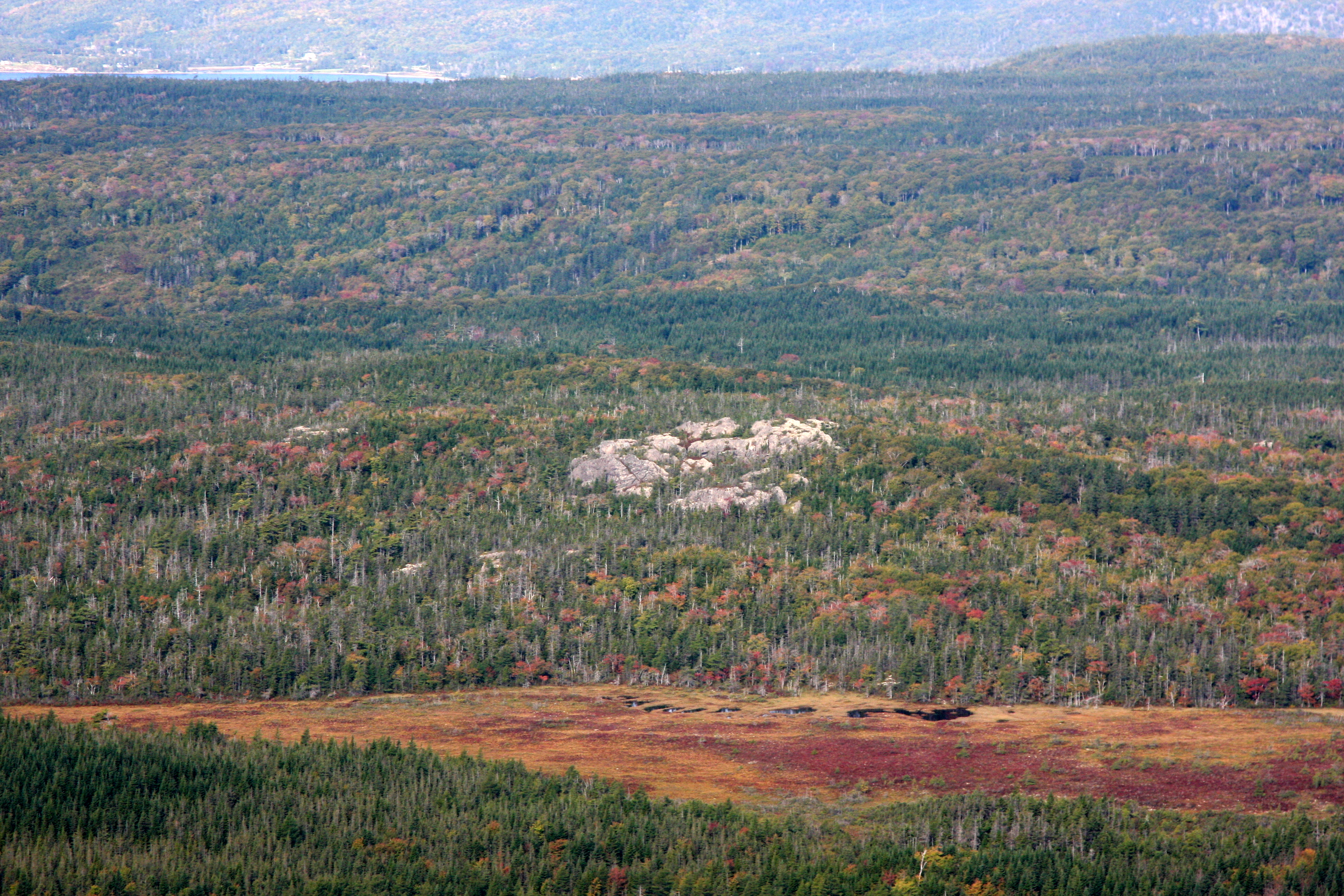 Sgurra Bhreac (alternative spelling 'Sgurra Breac'), sometimes referred to as the Big Rock, is a Canadian peak located in the East Bay Hills of Cape Breton Island, an extension of the Appalachian mountain chain in the province of Nova Scotia. Sgurra Bhreac is a prominent rock outcrop, rising 50 m (160 ft) from the northern edge of The Big Barren, between the Breac Brook and Glengarry Valleys, and is the highest elevation point on Cape Breton Island south of the Bras d'Or Lake with its summit at 222 m (728 ft).